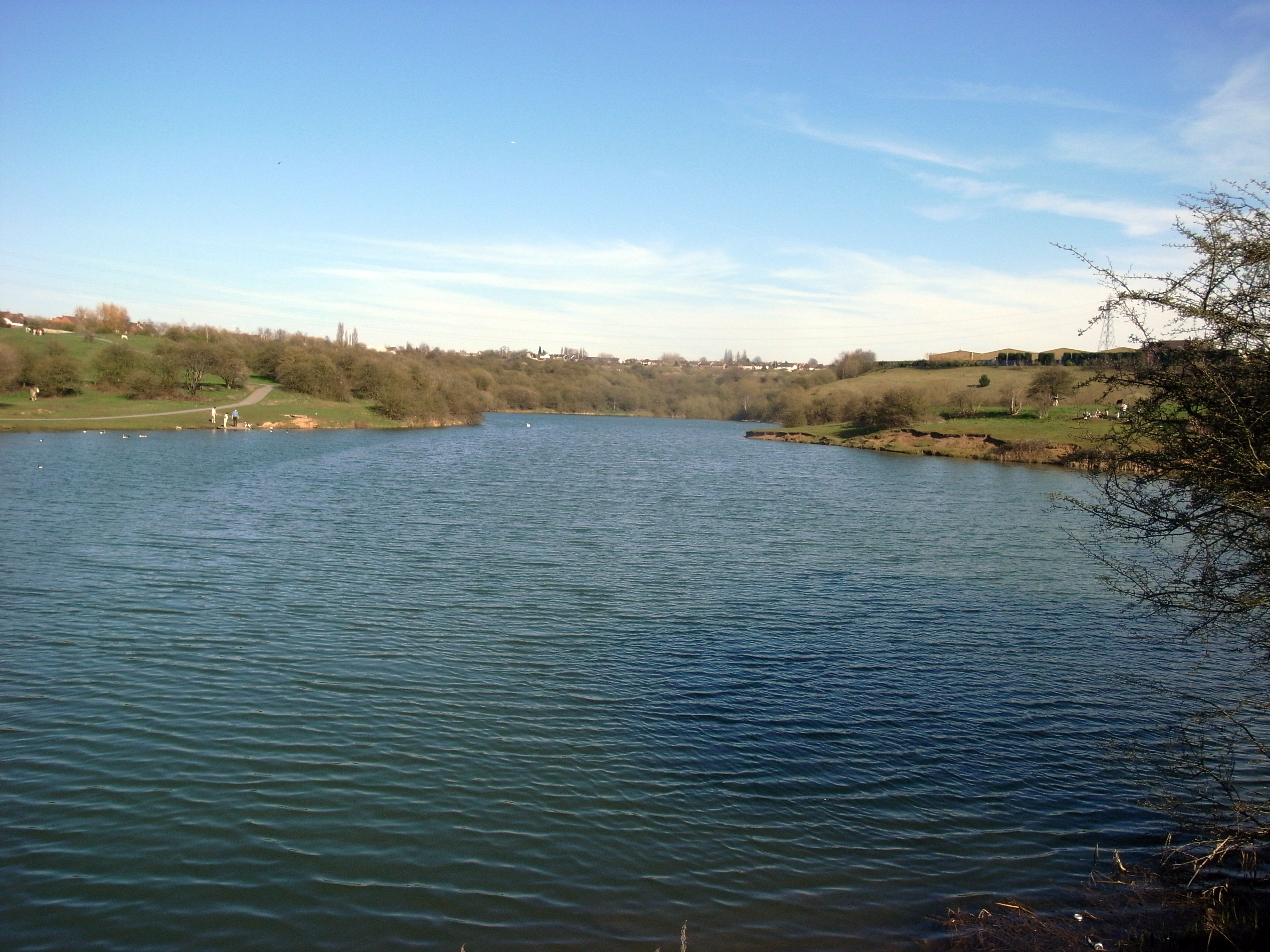 Middle Pool, the middle of the three Fens Pools built to collect and feed water to the Stourbridge Canal in England.